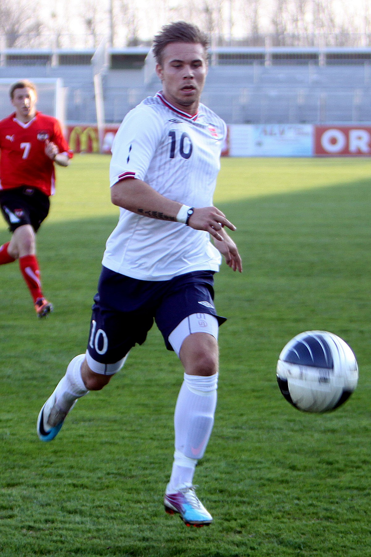 Marcus Pedersen (Vitesse Arnhem) in the Norway national under-21 football team, 2011-03-29